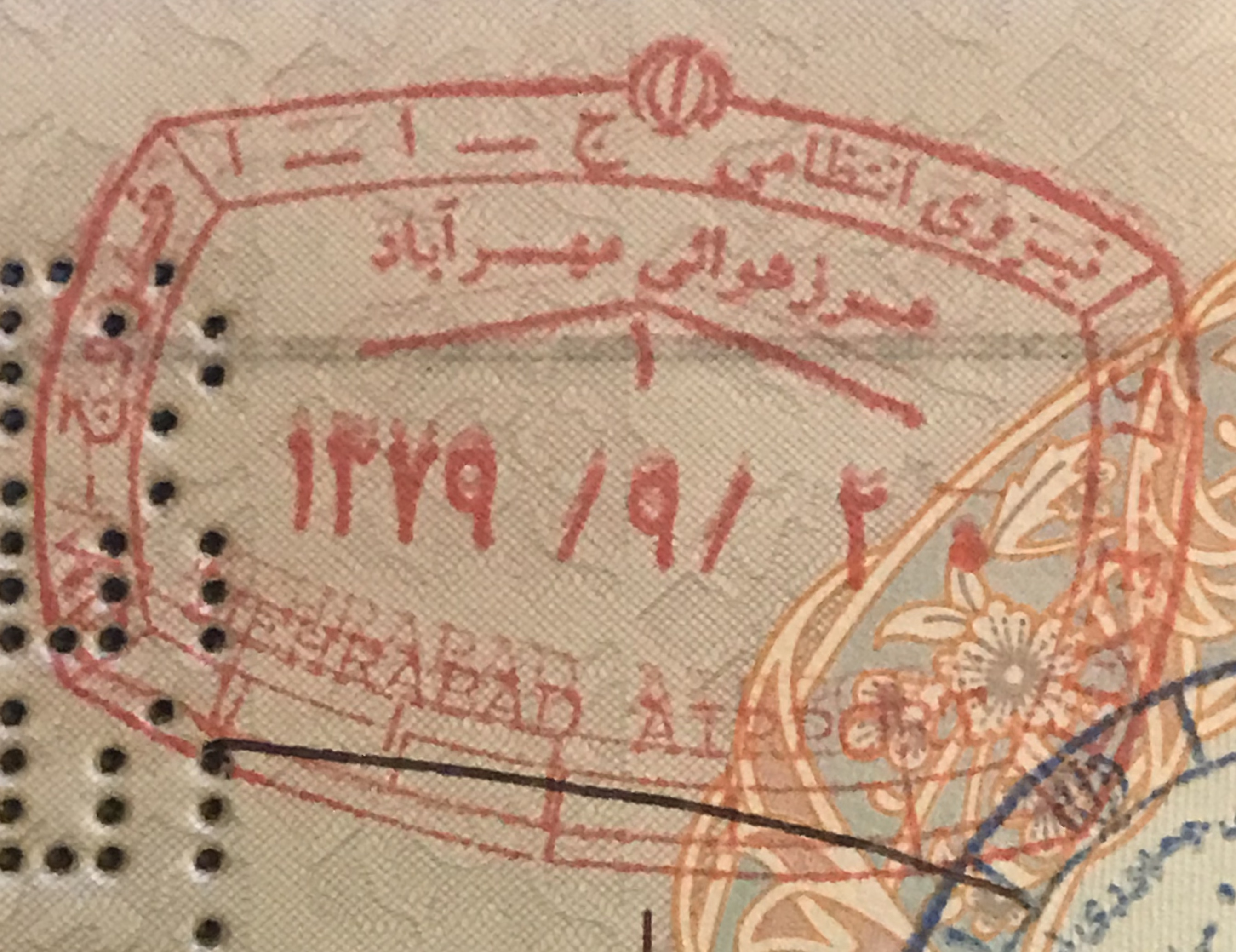 Former Mehrabad Airport Exit Stamp